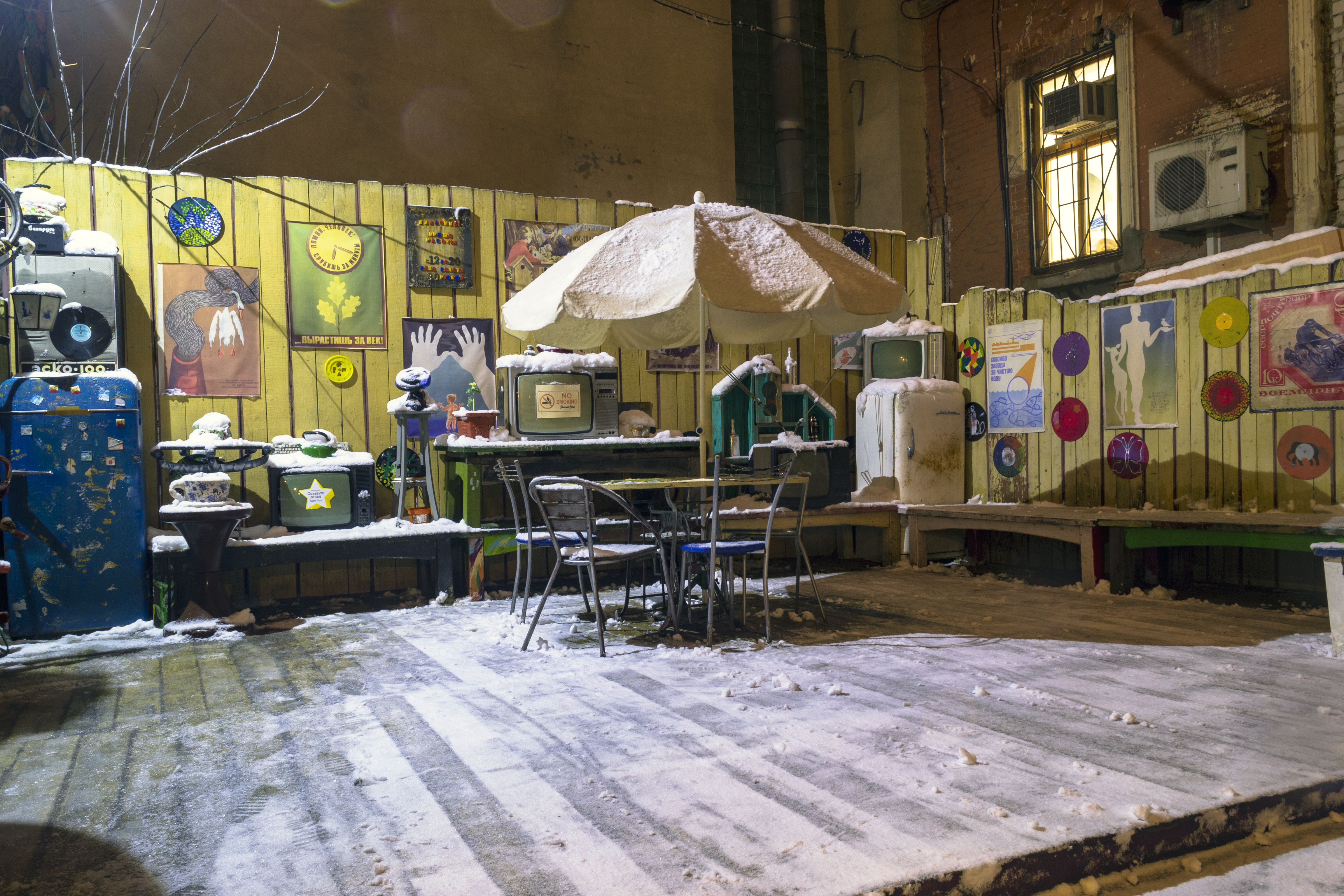 Artists Street, 26 (Bolshaya Pokrovskaya Street, 8), Nizhny Novgorod.